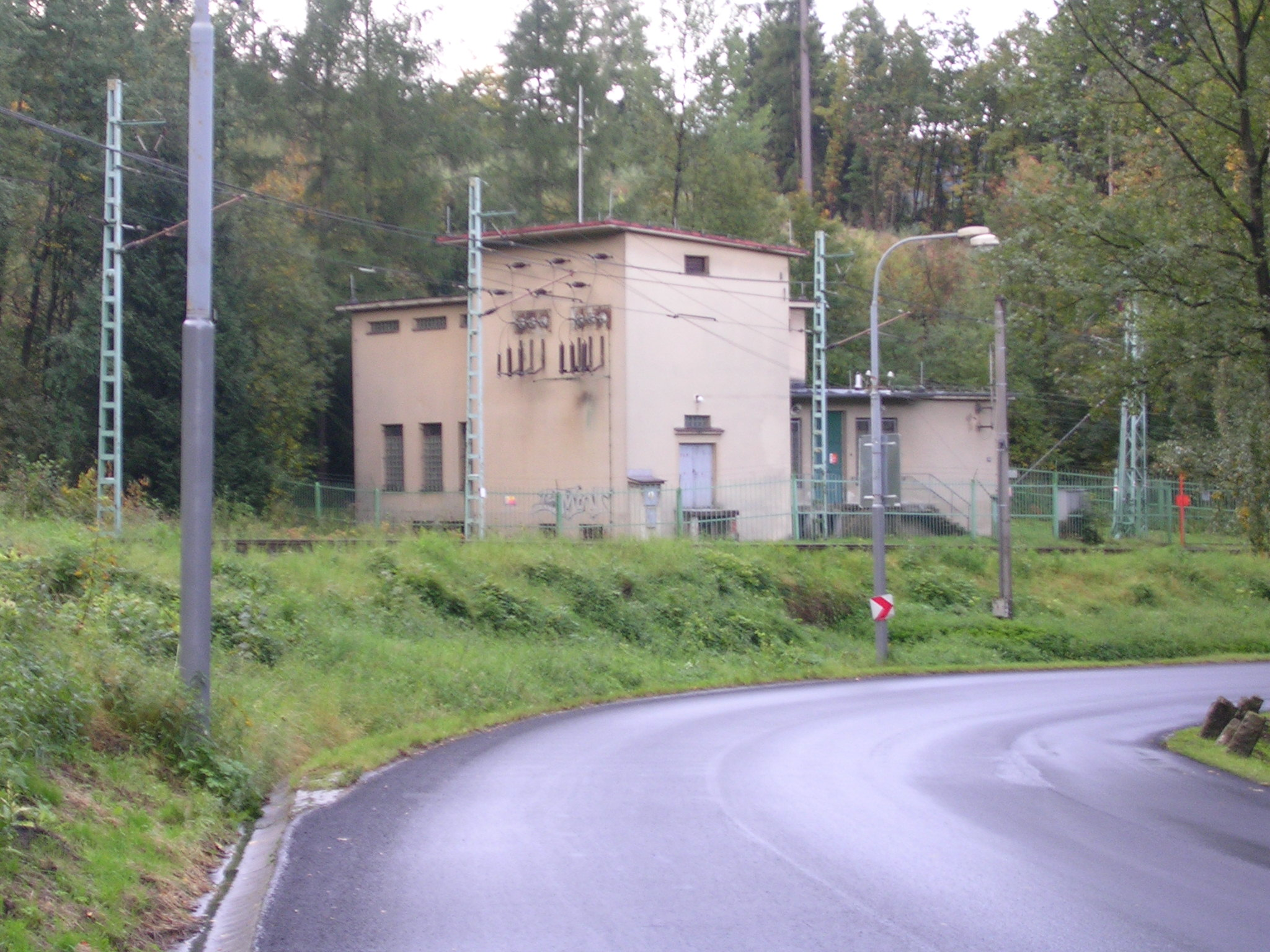 Tramway line between Liberec and Jablonec. Converter station near stop "Jablonec nad Nisou, Měnírna".